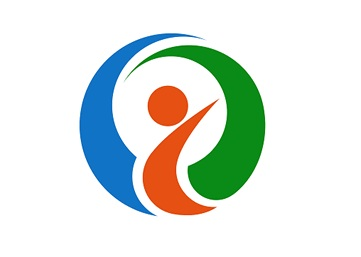 Flag of Itoshima Fukuoka